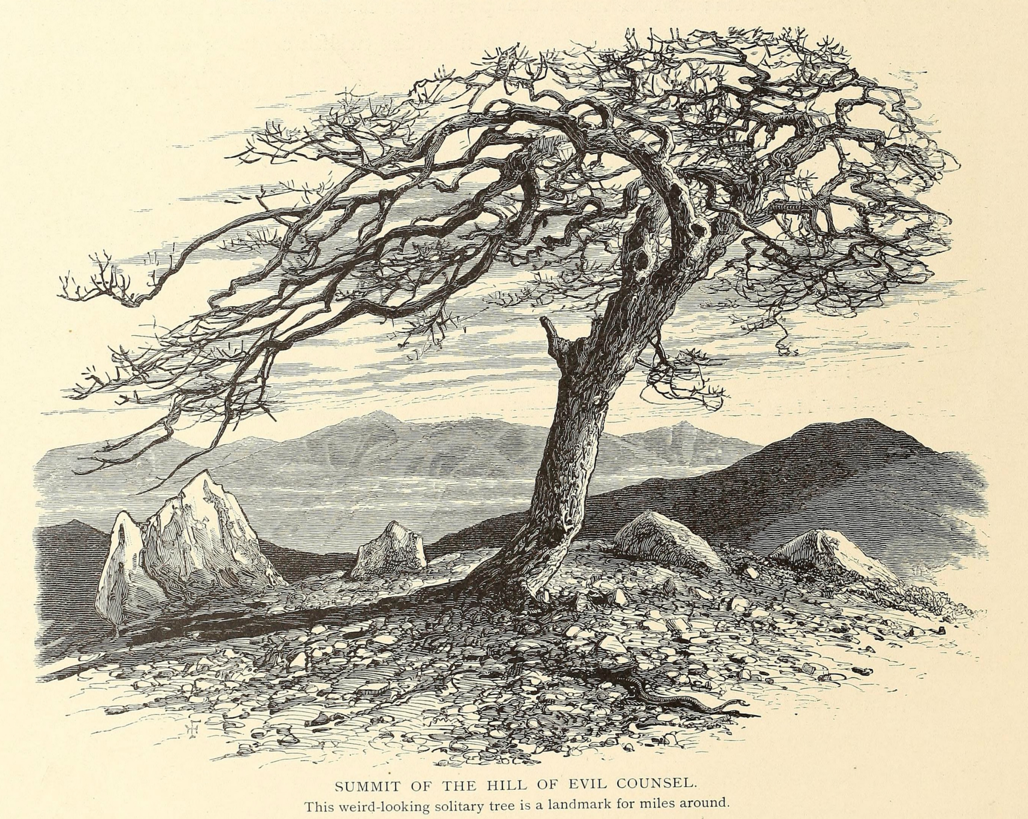 Caption: summit of the hill of evil counsel.This weird-looking solitary tree is a landmark for miles around.